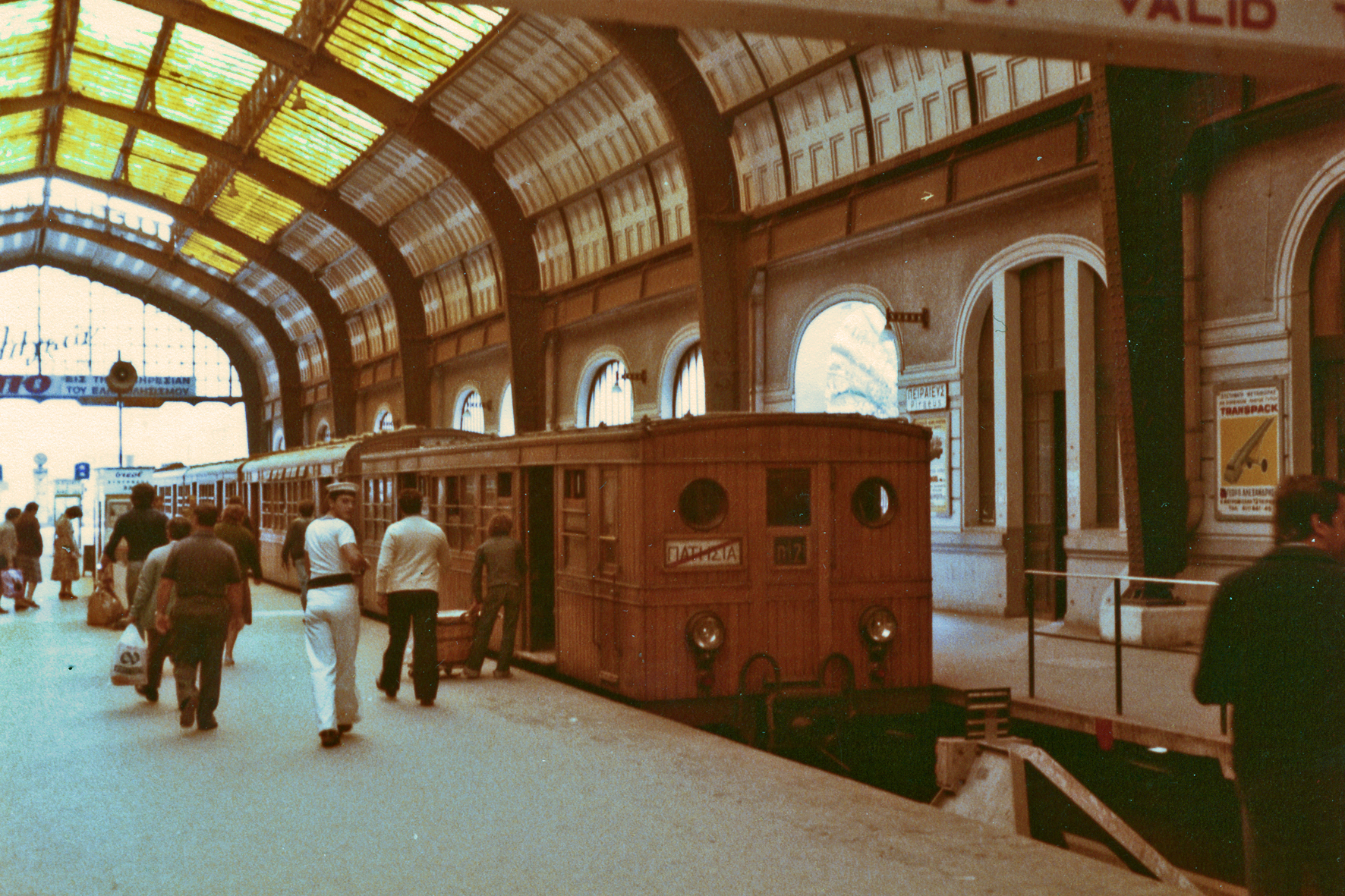 Old wooden metrotrein in 1979. Pireus metro station, Athens, Greece.